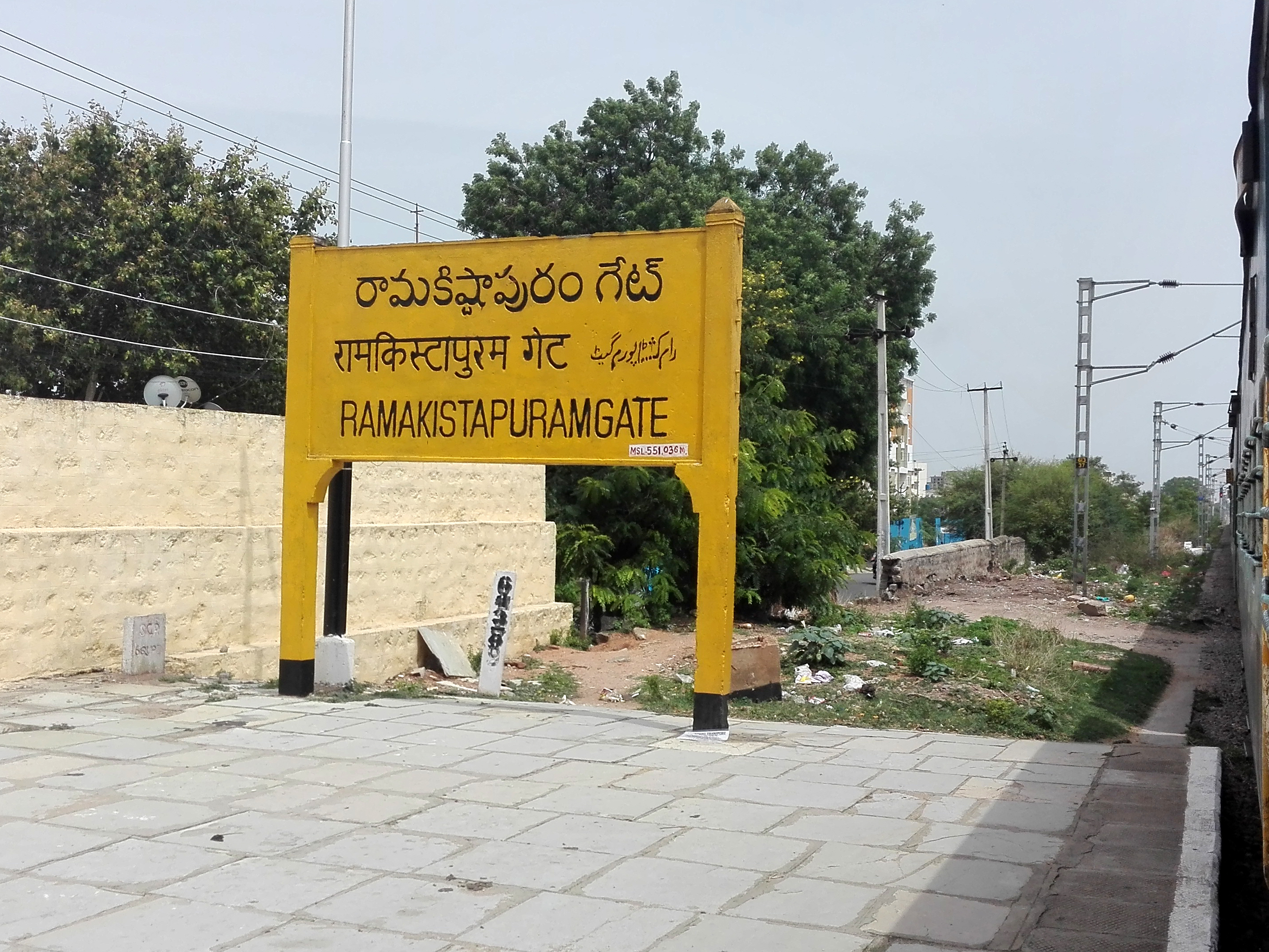 Name board of Ramakistapuram train station